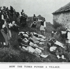 Greek massacre in Brnik, Prilep region